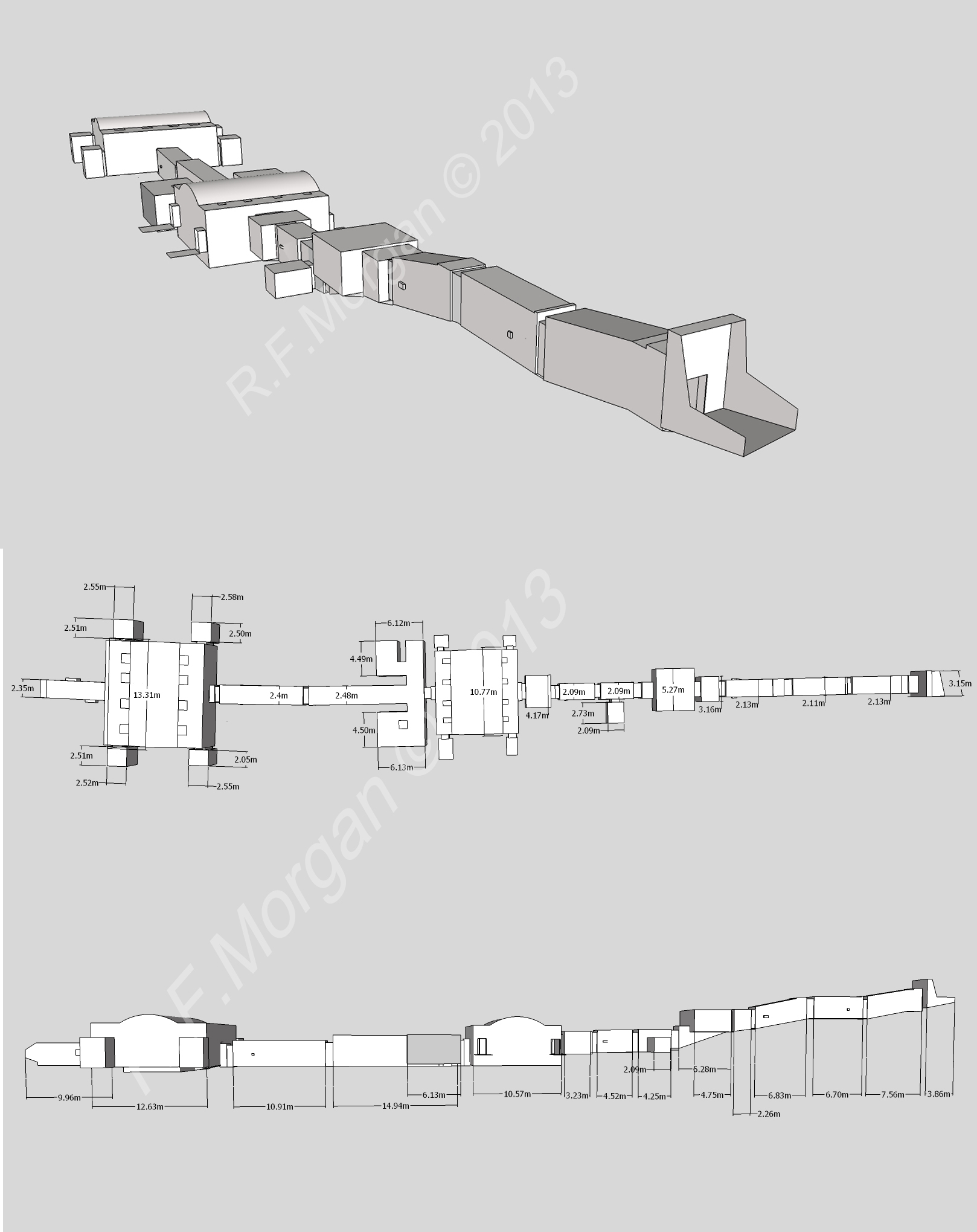 Isometric, plan and elevation images of KV14 taken from a 3d model